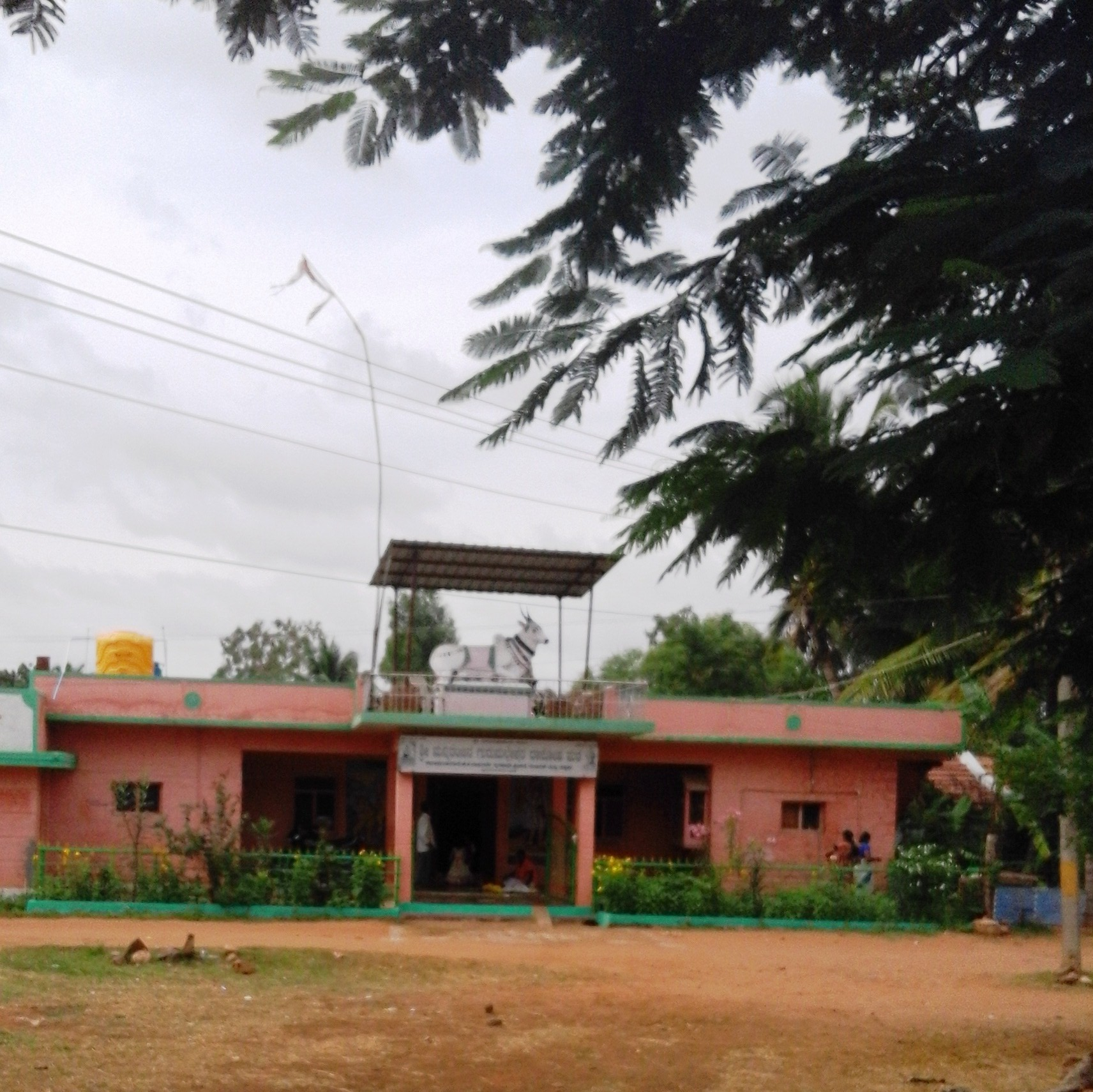 Gurumakeshwara Math at KavalandeKRP, Mysore district, Karnataka state, India.